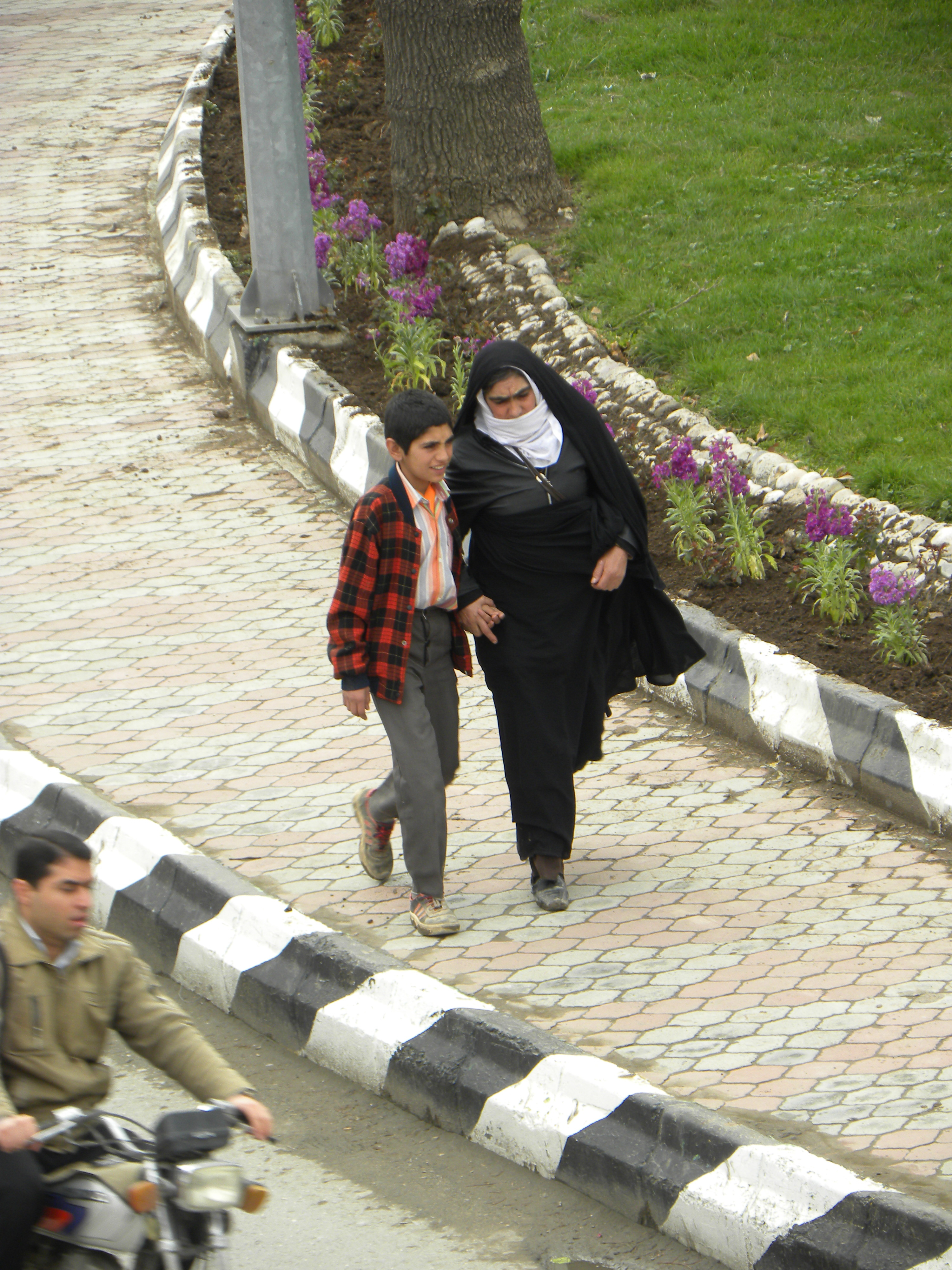 Mother_with__her_son_walking